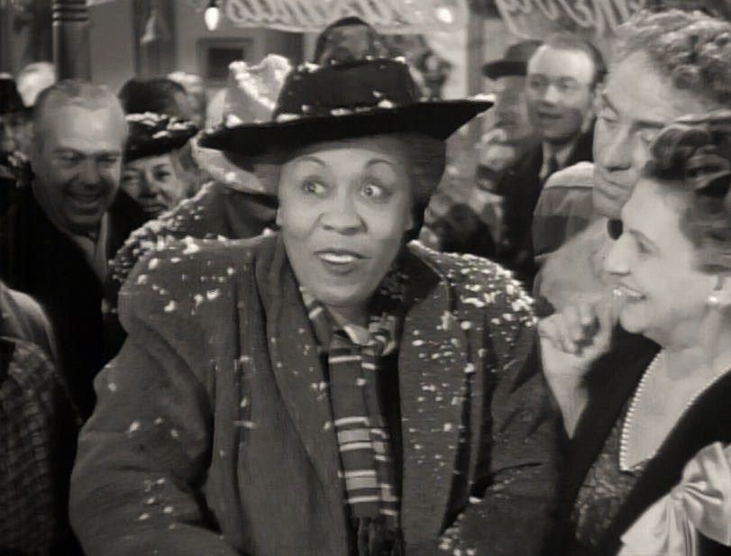 Lillian Randolph (center) in It's a Wonderful Life - cropped screenshot